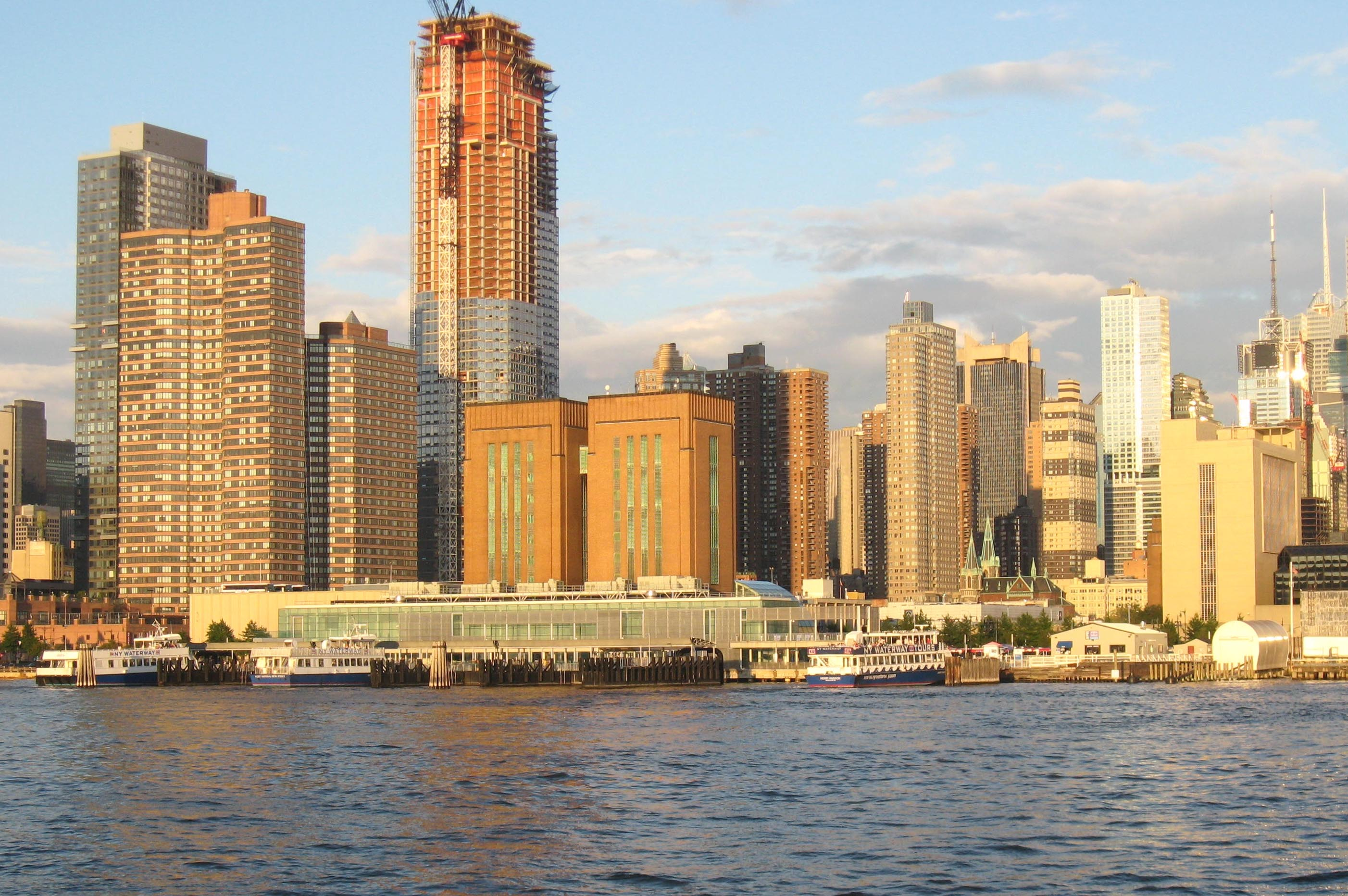 Looking east at 39th Street Ferry Terminal, Manhattan, from NY Waterway boat from Weehawken at the sunny end of a rainy day